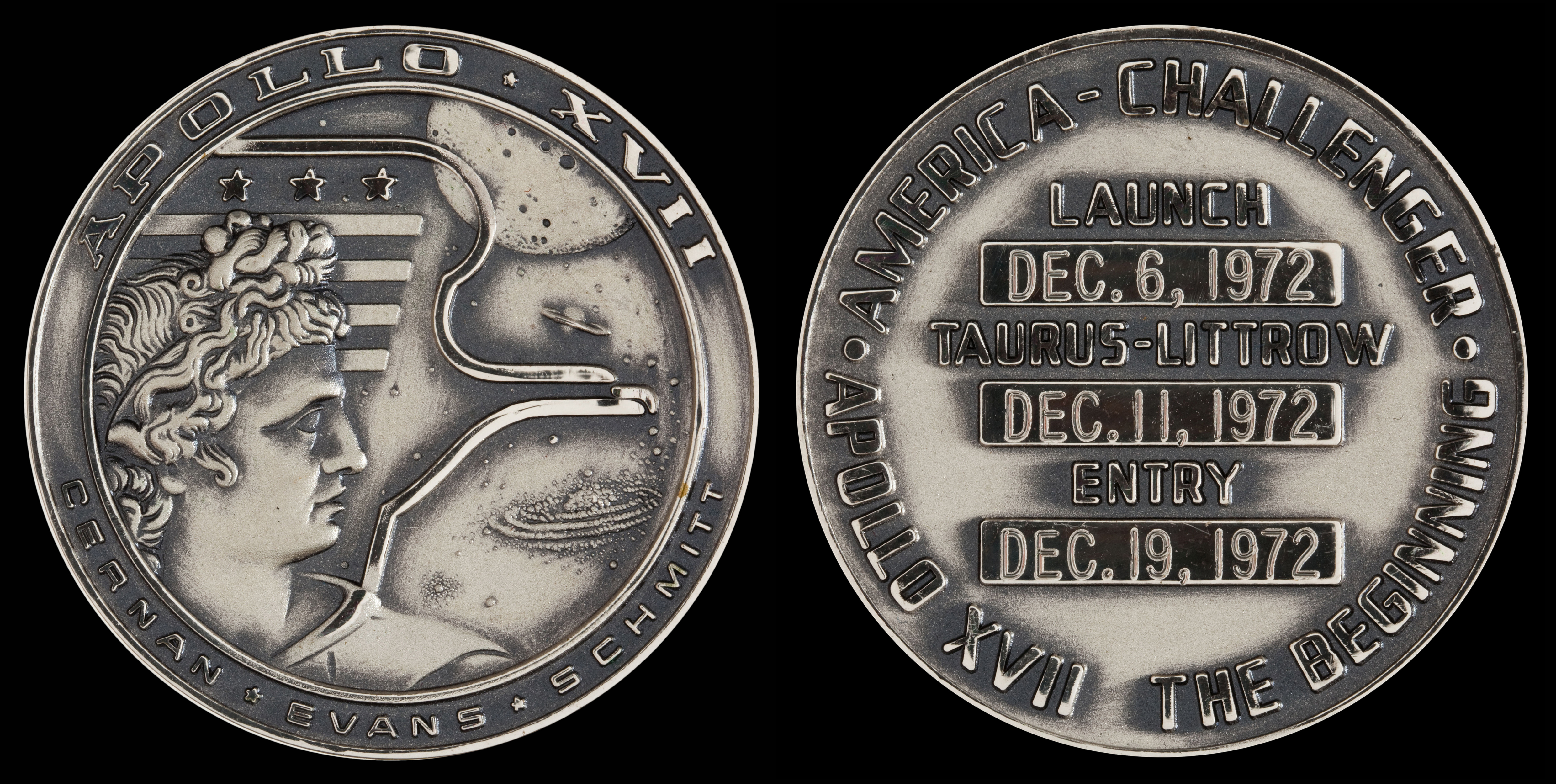 Apollo 17 (S72-49079, September 1972) Flown Silver Robbins Medallion (SN-F39)(6082-40213)